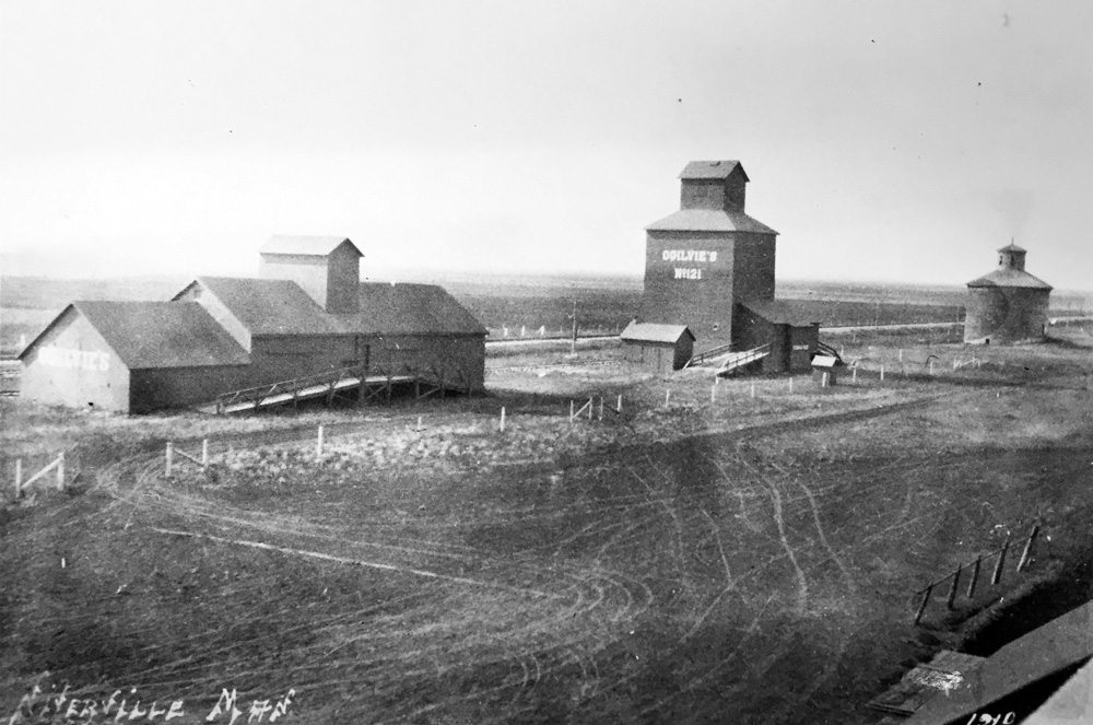 Three types of grain storage facilities in Niverville, Manitoba: the warehouse, the square-design Ogilvie elevator, and the round design of the first elevator in Manitoba.